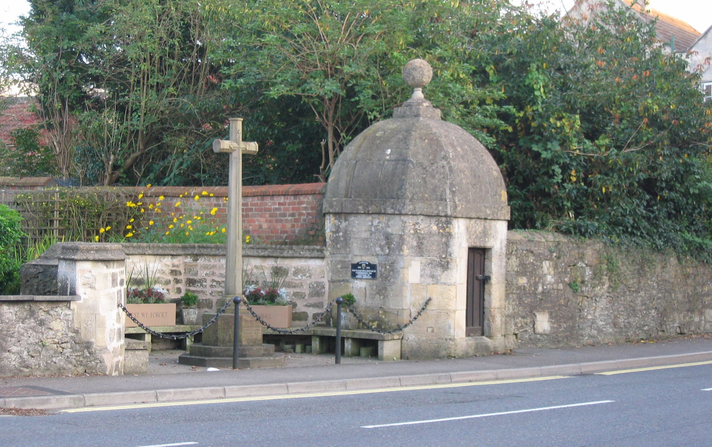 Lock-up in Hilperton near the village centre